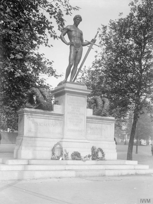 The War Memorials of the First World War The Machine Gun Corps Memorial at Hyde Park Corner, London.